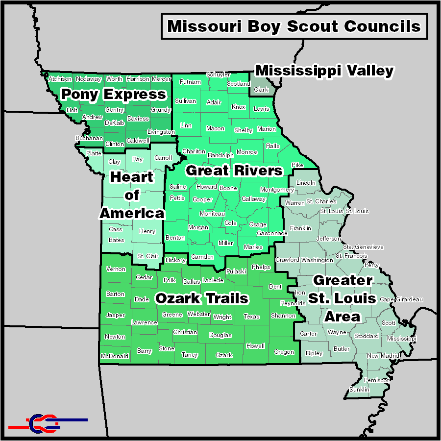 Missouri BSA Councils - Map created using boundary information publicized by the relevant BSA councils. US Census TIGER data used for county and state lines. Council divisions are exact where they coincide with county lines and approximate in other areas. All councils on this map are in the central region.